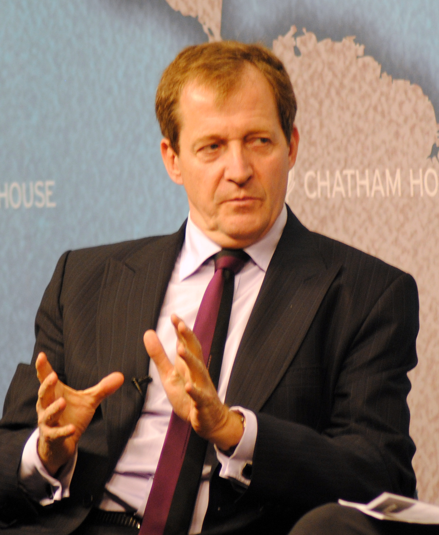 Alastair Campbell, Journalist; Director of Communications and Strategy, Number 10 (1997-2003) at the Chatham House event E-Leadership: Political Communication in a Digital World, 17 October 2012